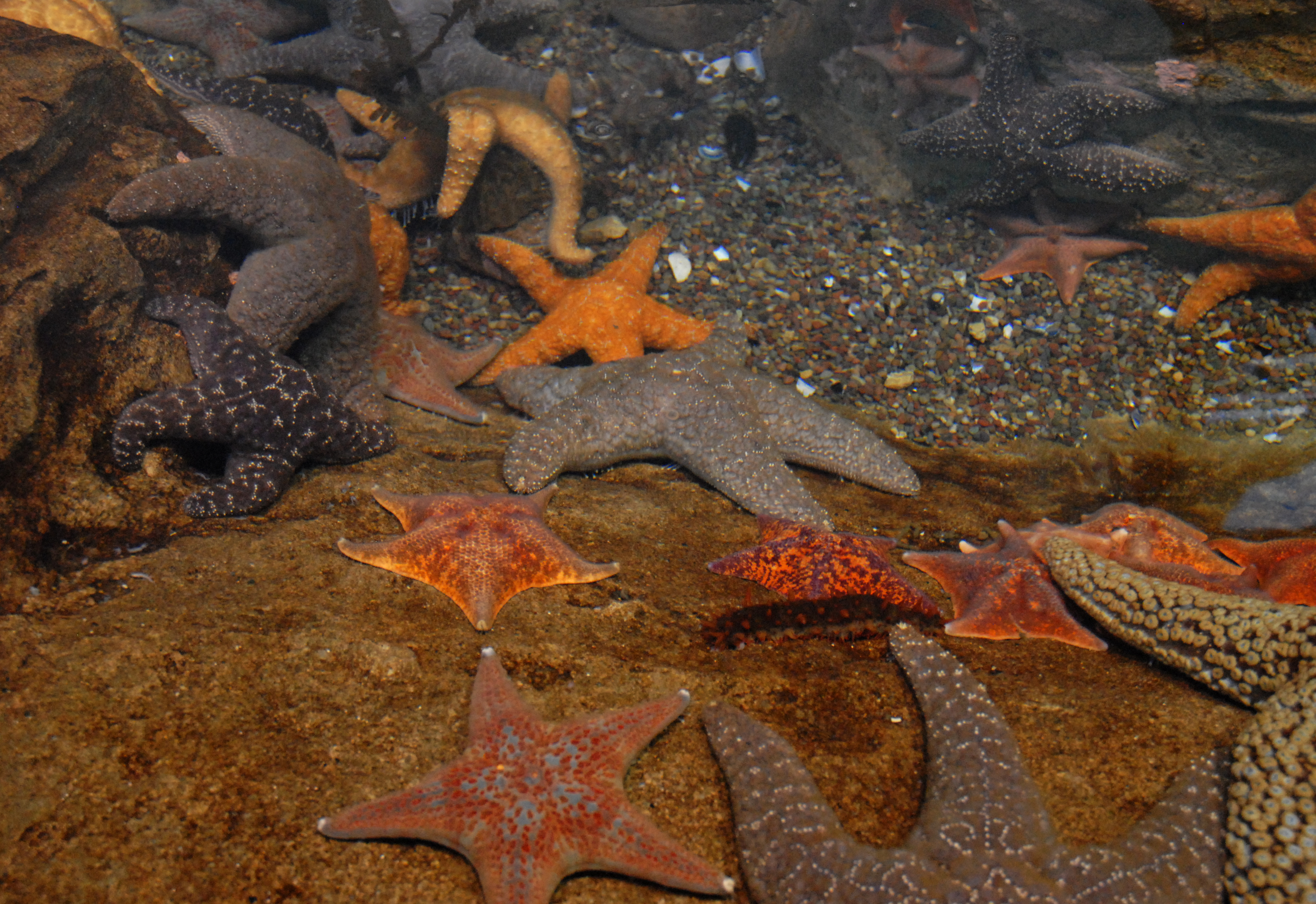 undersea party